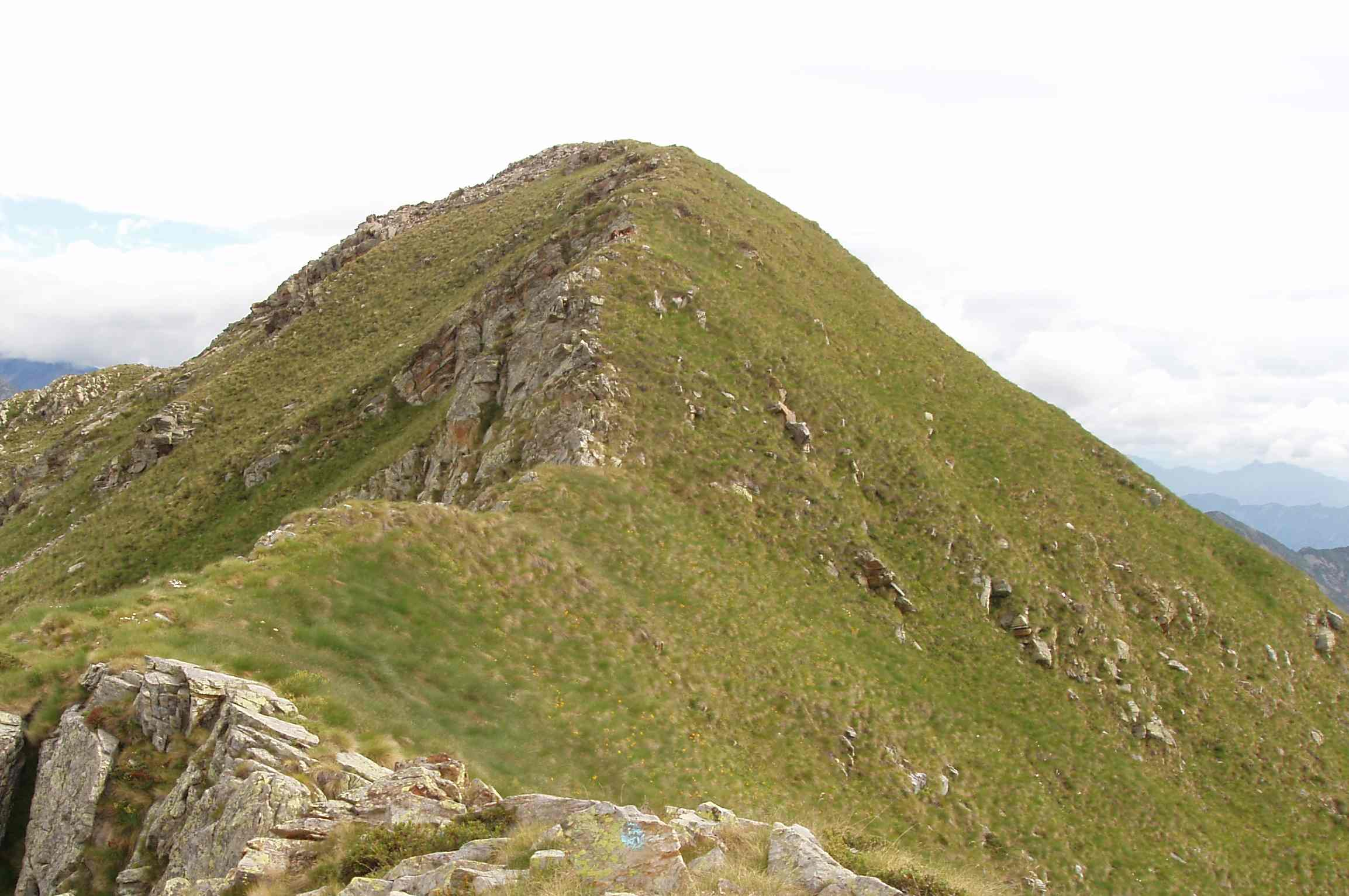 Mount Gragliasca from south ridge (Piedmont, Italy)